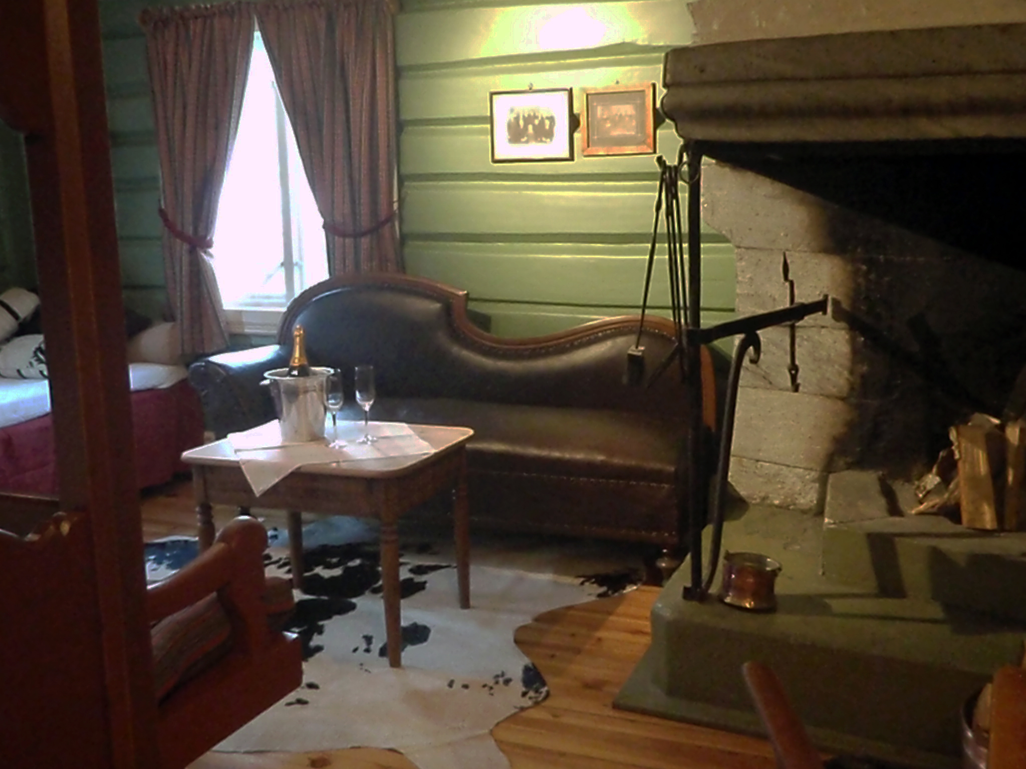 "The green room" at Nordre Ekre Farm Hotel, Heidal, Norway